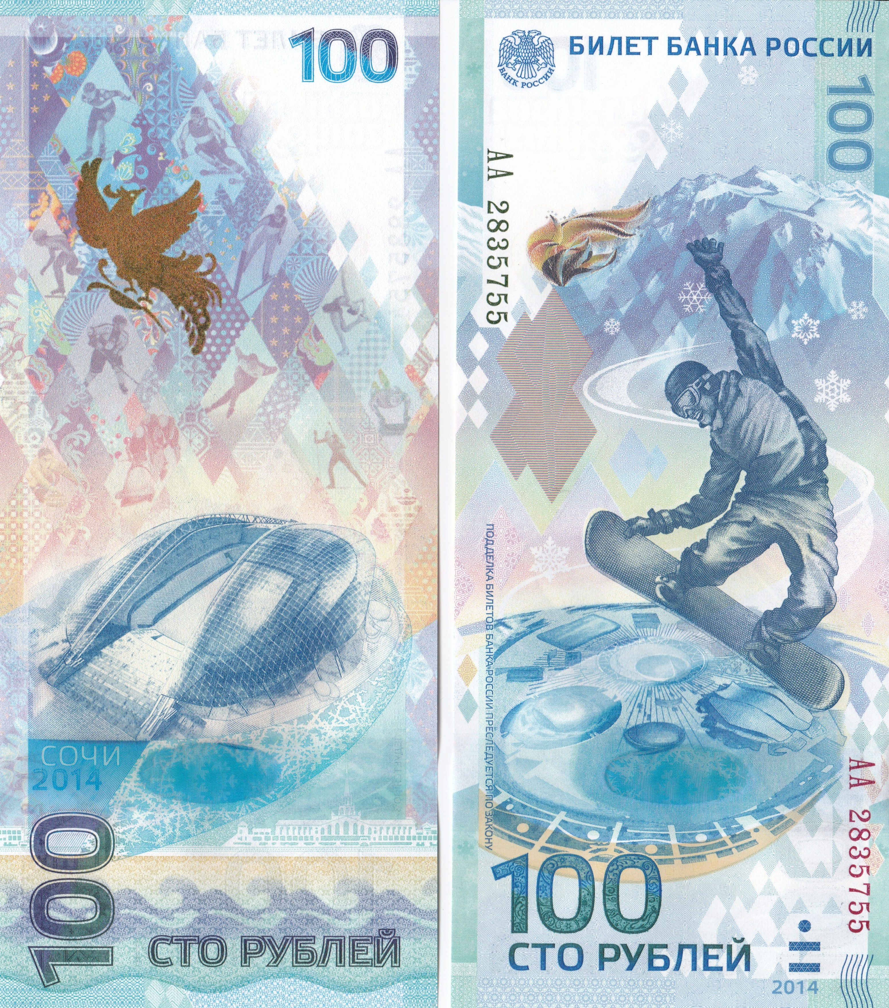 Russia 2014 Olympic banknote 100 rubles, vertically oriented